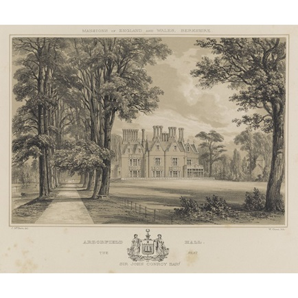 Old Print of Arborfield Hall